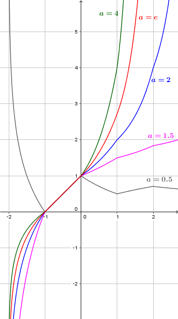 a^^x for a = 4, e, 2, 1.5, 0.5 using linear approximation.